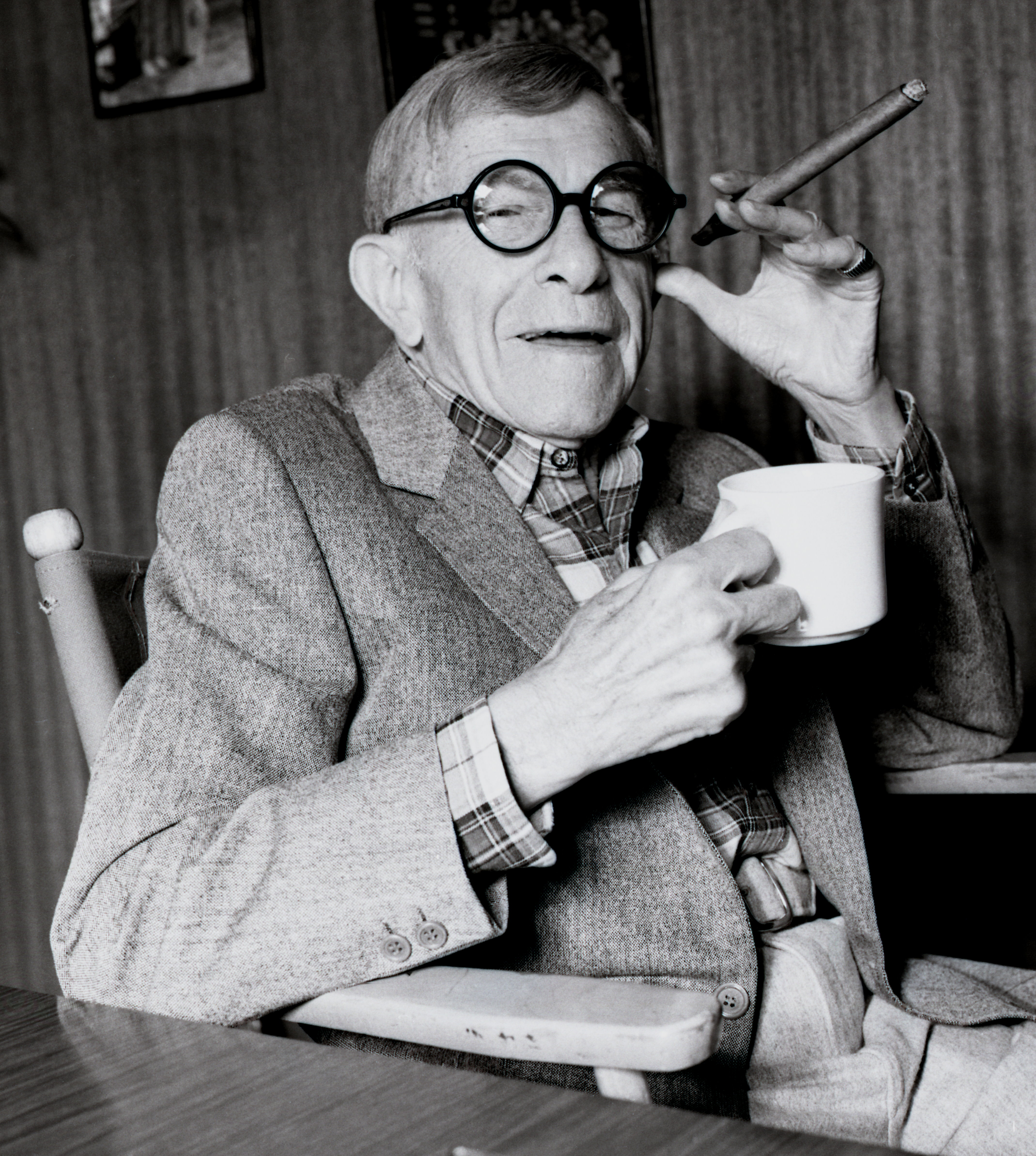 George Burns. portrait in Hollywood